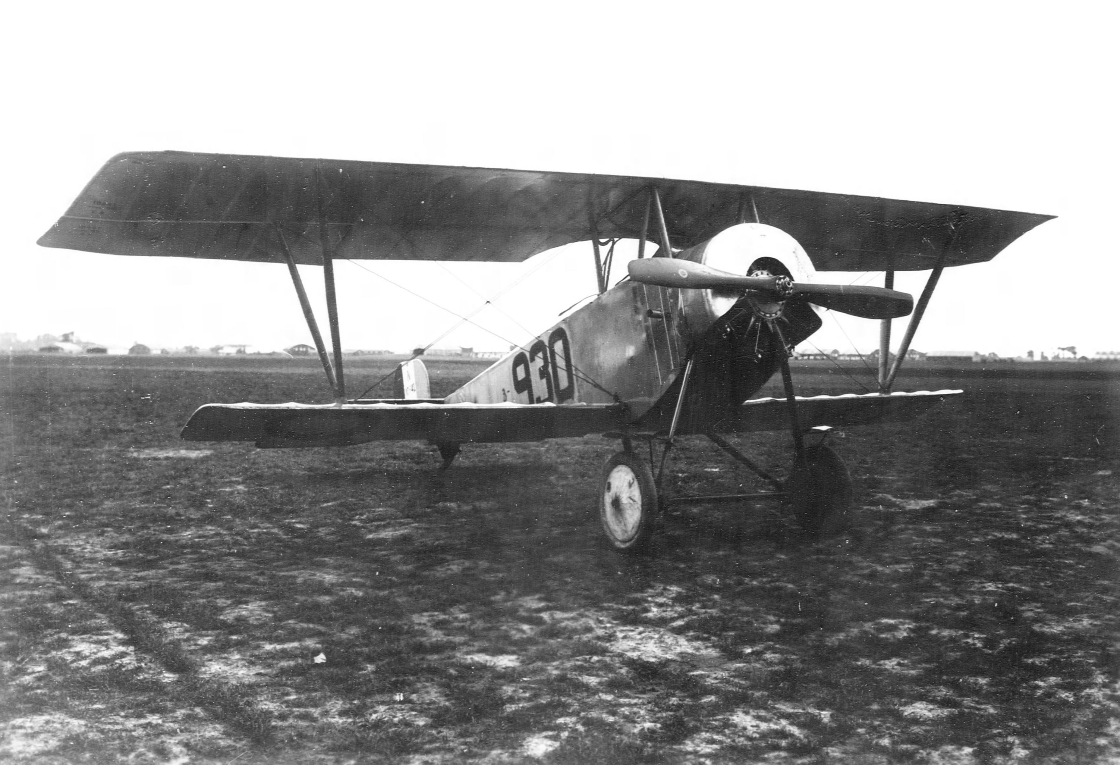 Nieuport 80 at Air Service Production Center No. 2, Romorantin Aerodrome, France, 1918